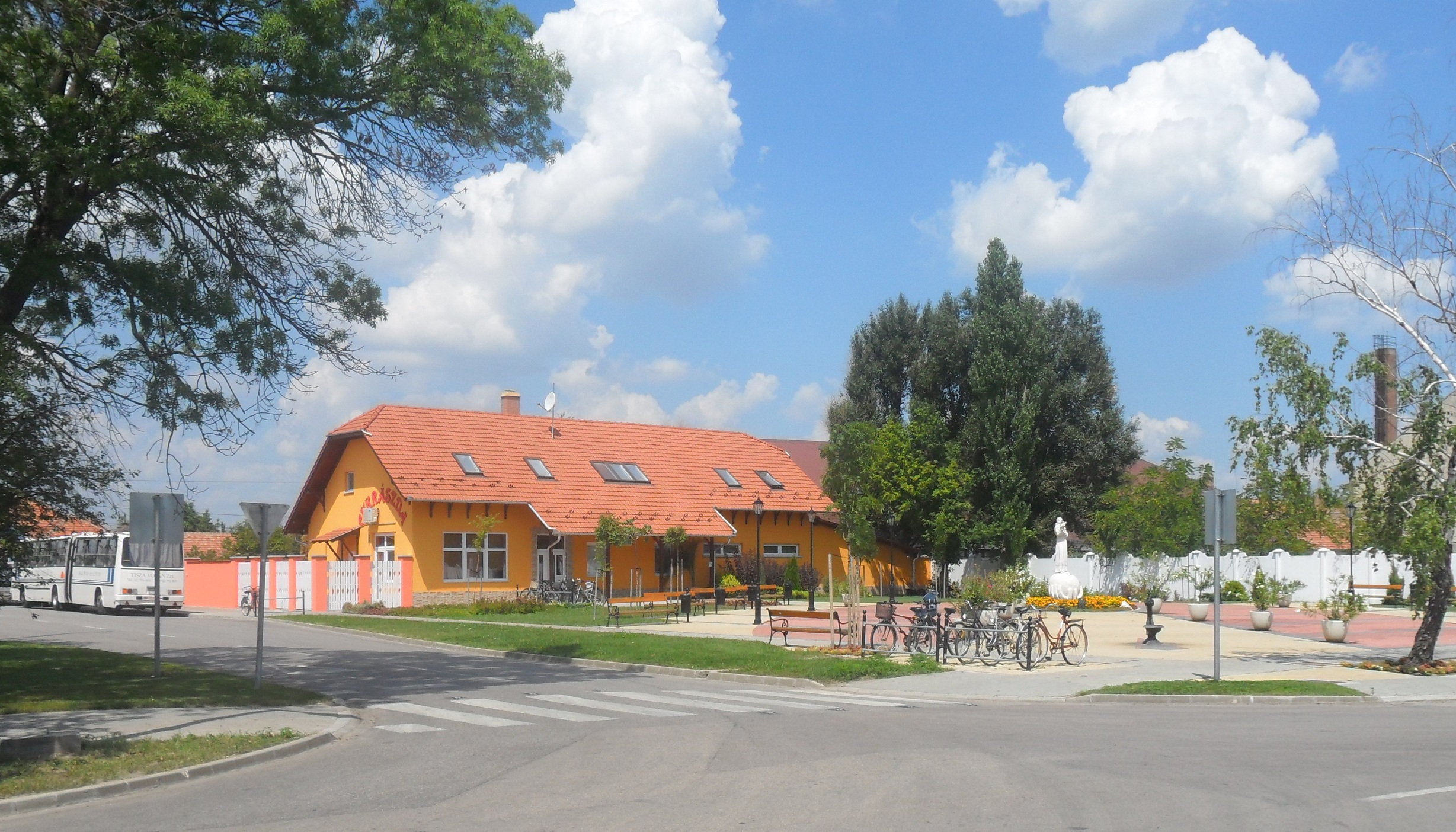 Main Square of Röszke